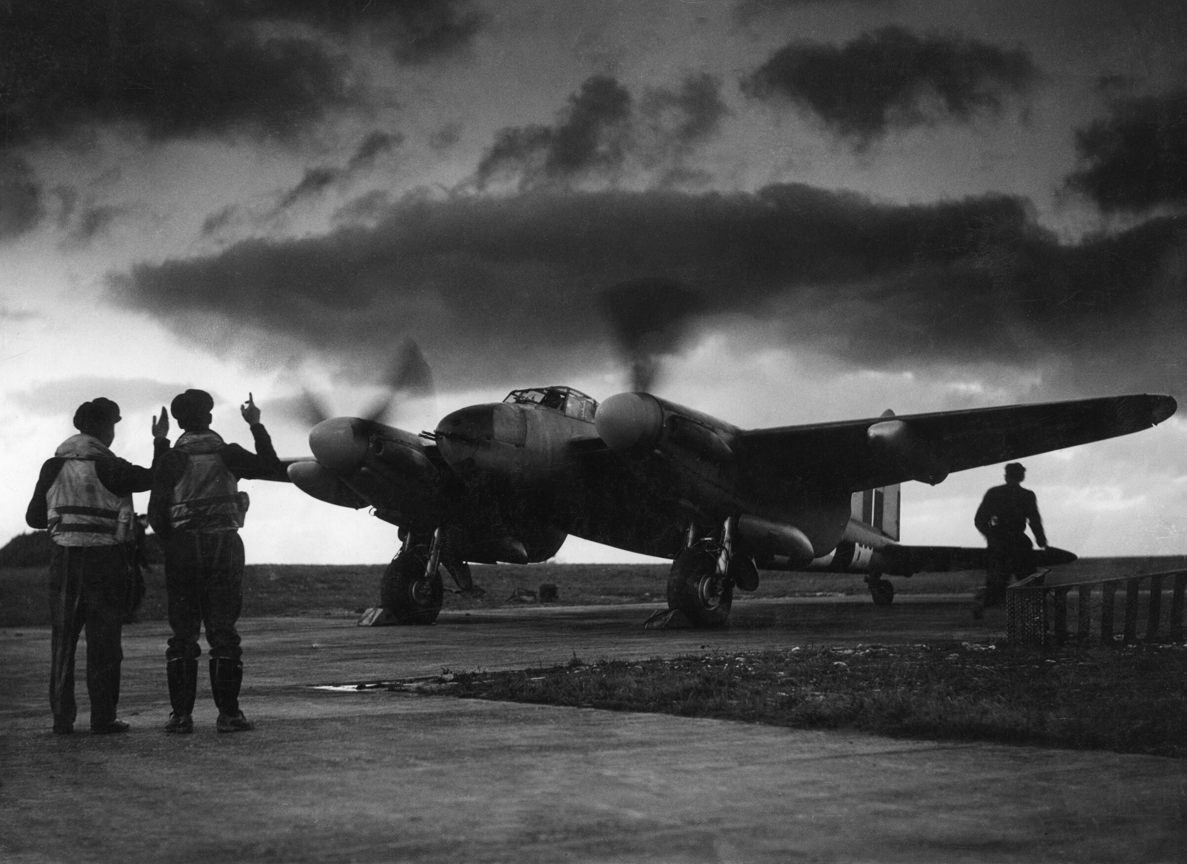 The De Havilland Mosquito A Mosquito Mk VI about to take off on a night intruder operation over enemy territory, 1944.